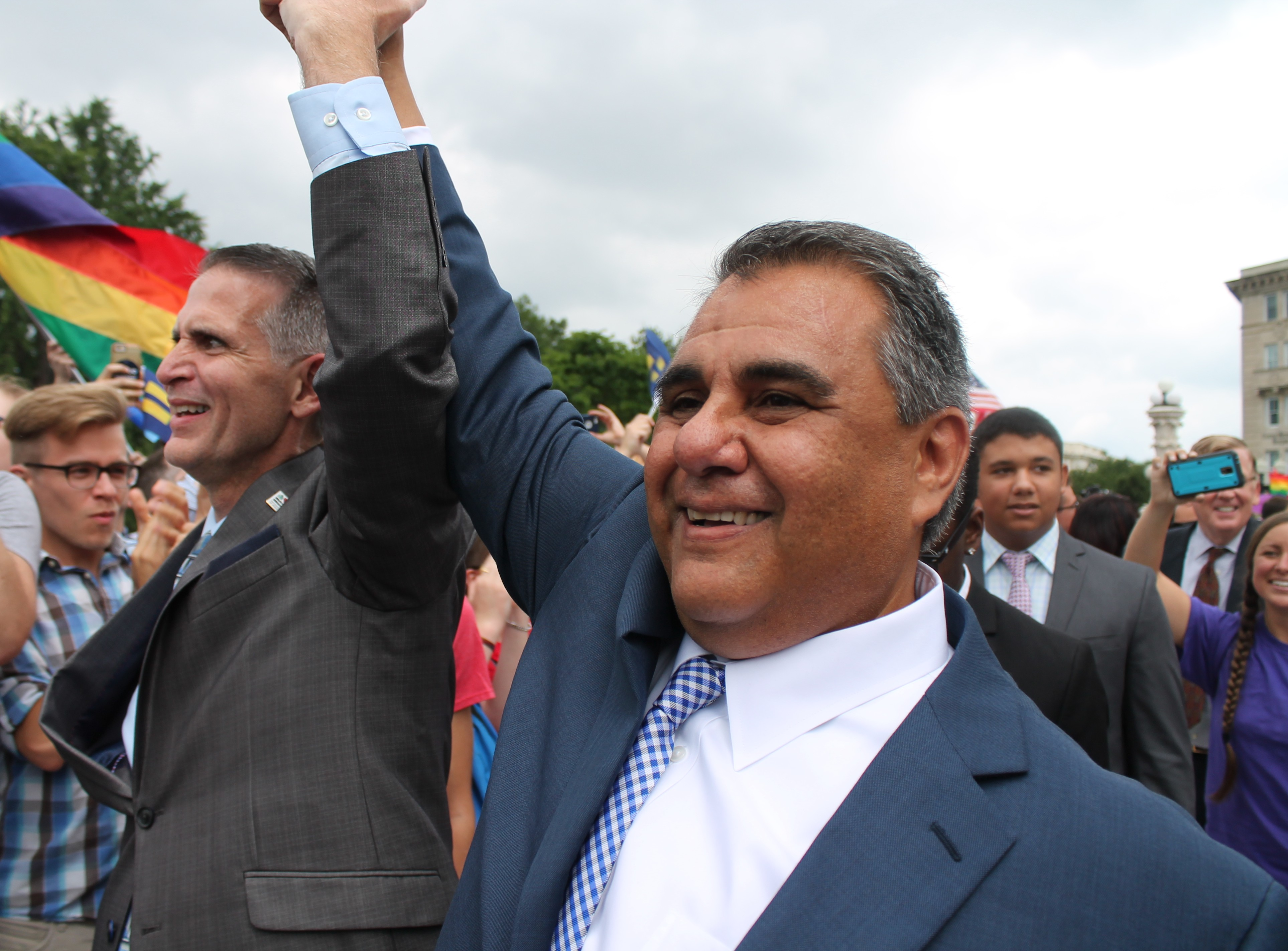 MARRIAGE EQUALITY DECISION DAY RALLY in front of the US Supreme Court on First Street between East Capitol Street and Maryland Avenue, NE, Washington DC on Friday morning, 26 June 2015 by Elvert Barnes Protest Photography Marriage Equality / USA Learn more about the SCOTUS Obergefell v. Hodges case on Wikipedia at Visit Elvert Barnes MARRIAGE EQUALITY same-sex civil unions ongoing project at